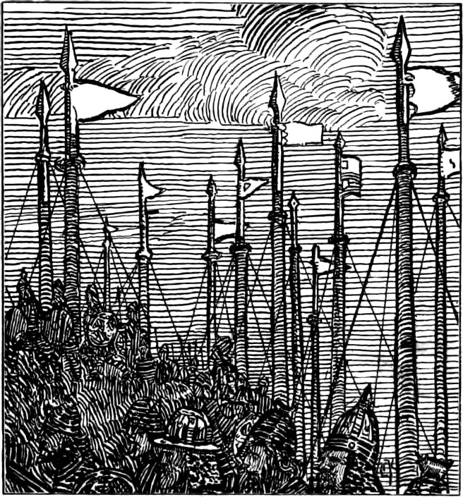 Nineteenth-century depiction of the forces of Magnus Barefoot in Ireland. The illustration appears on page 544 of: Storm, G, ed. (1899). Norges Kongesagaer. Vol. 2, Heimskringla II. Oslo: I.M. Stenersens Forlag. The caption reads: "Da Sol randt op, gik Magnus og hans Mænd lland".